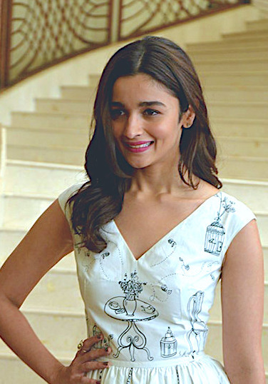 Alia Bhatt at the press conference of Singapore Tourism Board in 2016